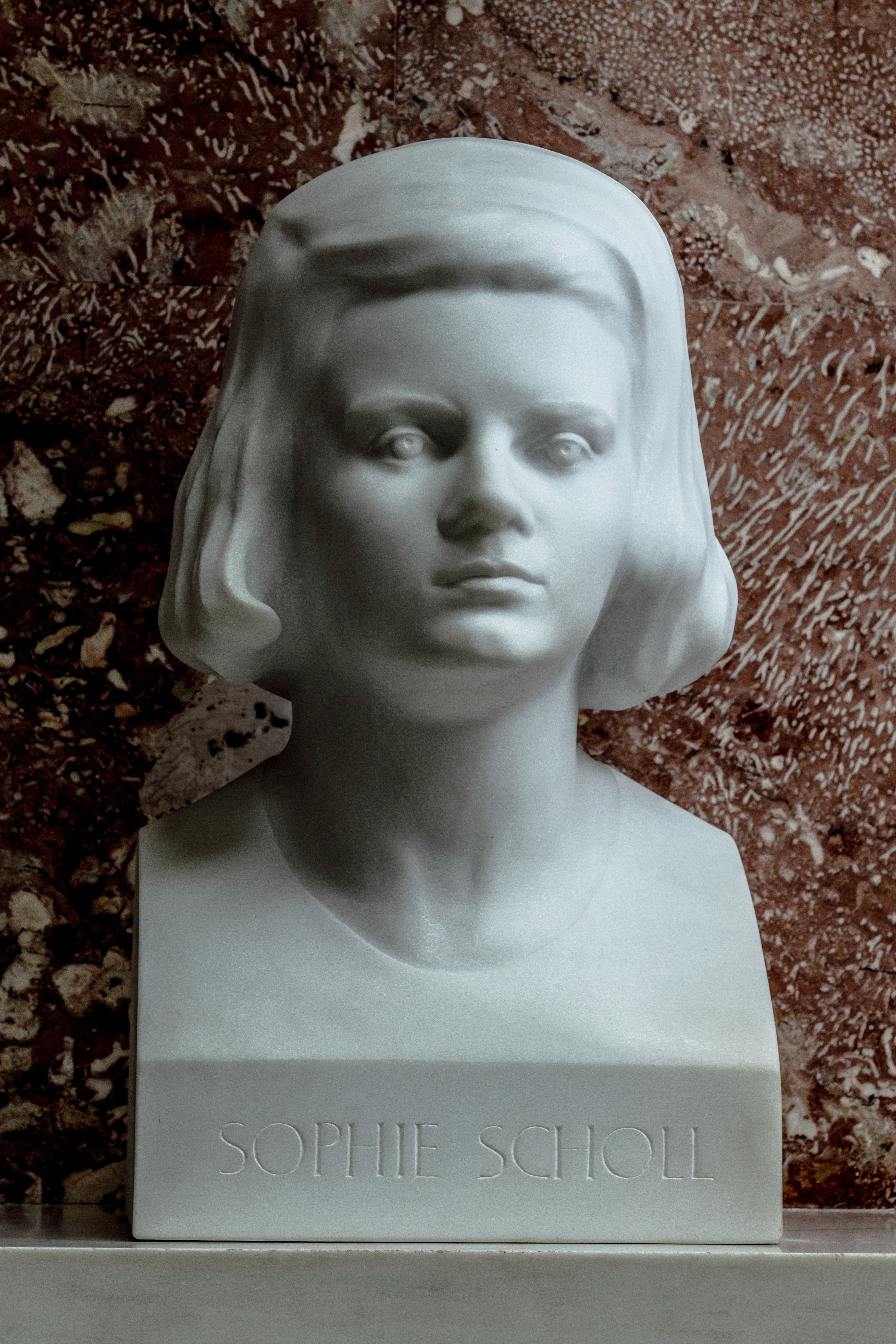 In 2003 the bust created by the sculptor Wolfgang Eckert was set up in the Walhalla near Donaustauf/Regensburg.